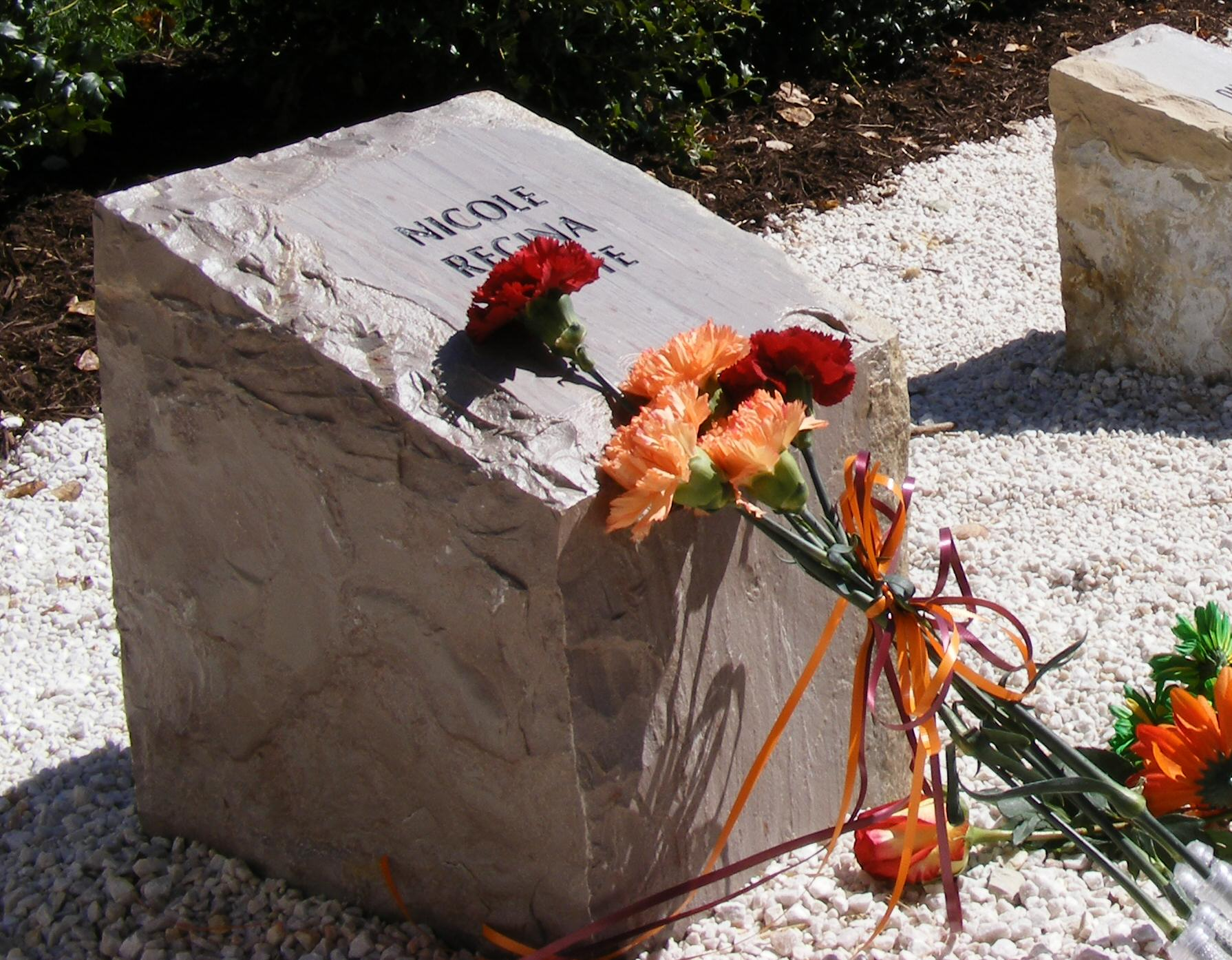 Virginia Tech massacre memorial on the campus of Virginia Tech, photographed at the 2007 Ohio game